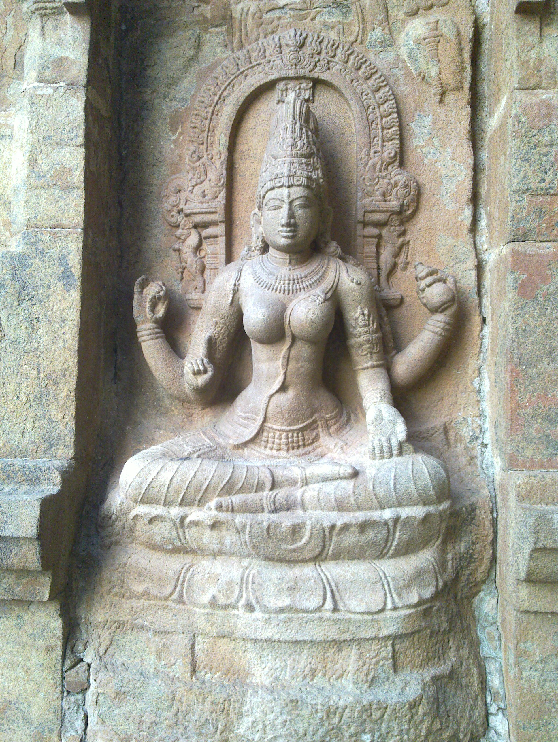 Saraswathi statue without veena in Gangaikonda Cholapuram Temple